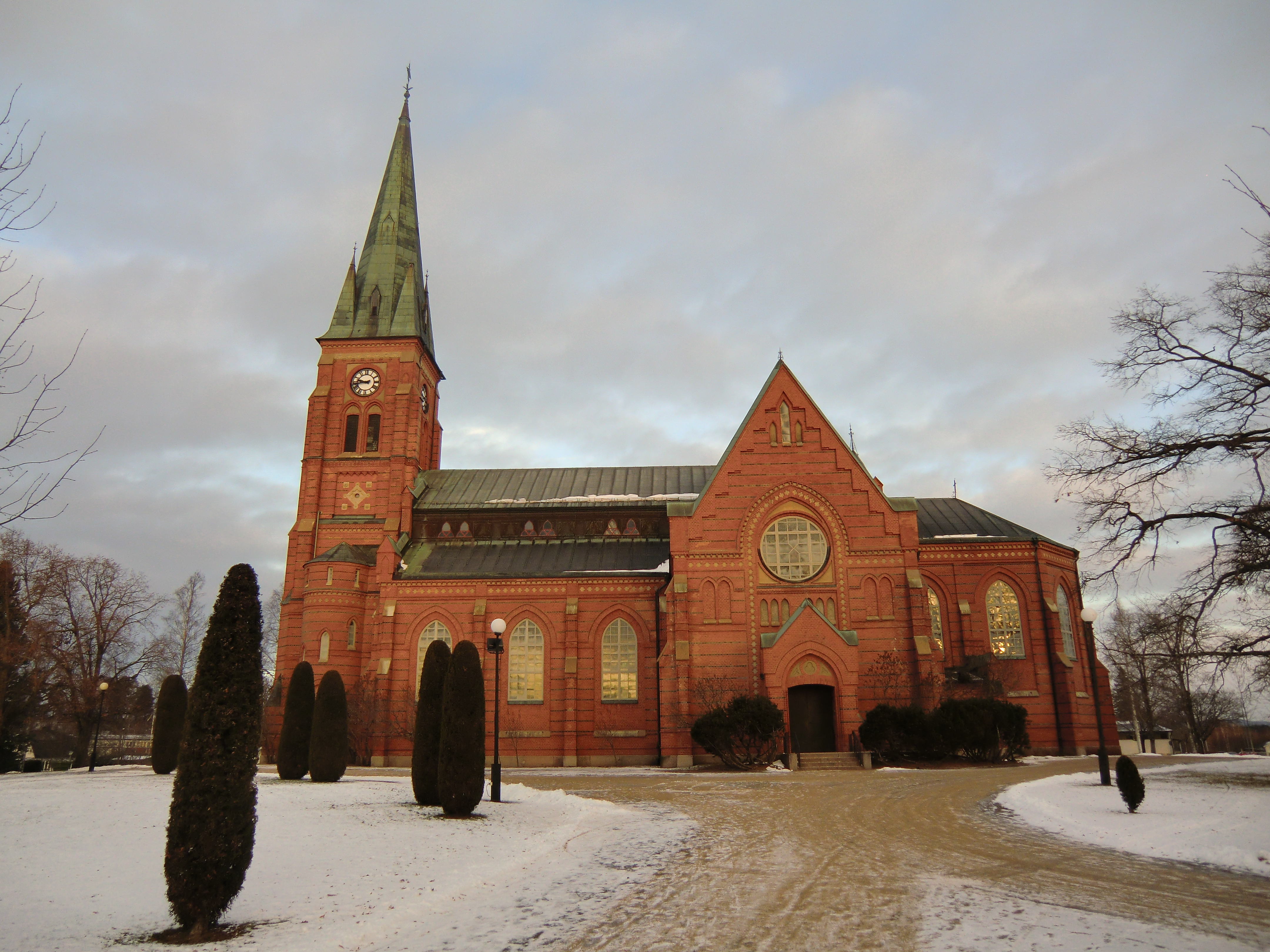 Fryksände church in Torsby, Värmland, Sweden.